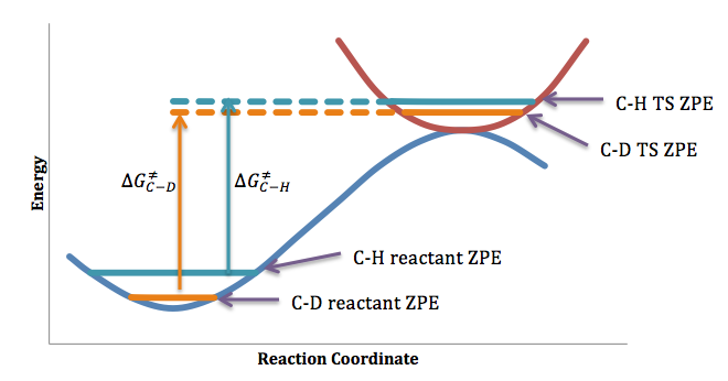 ZPE energy differences and corresponding differences in the activation energies for the breaking of analogous C-H and C-D bonds